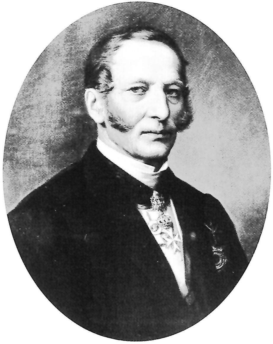 800 ans d'histoire de la famille de Senarclens